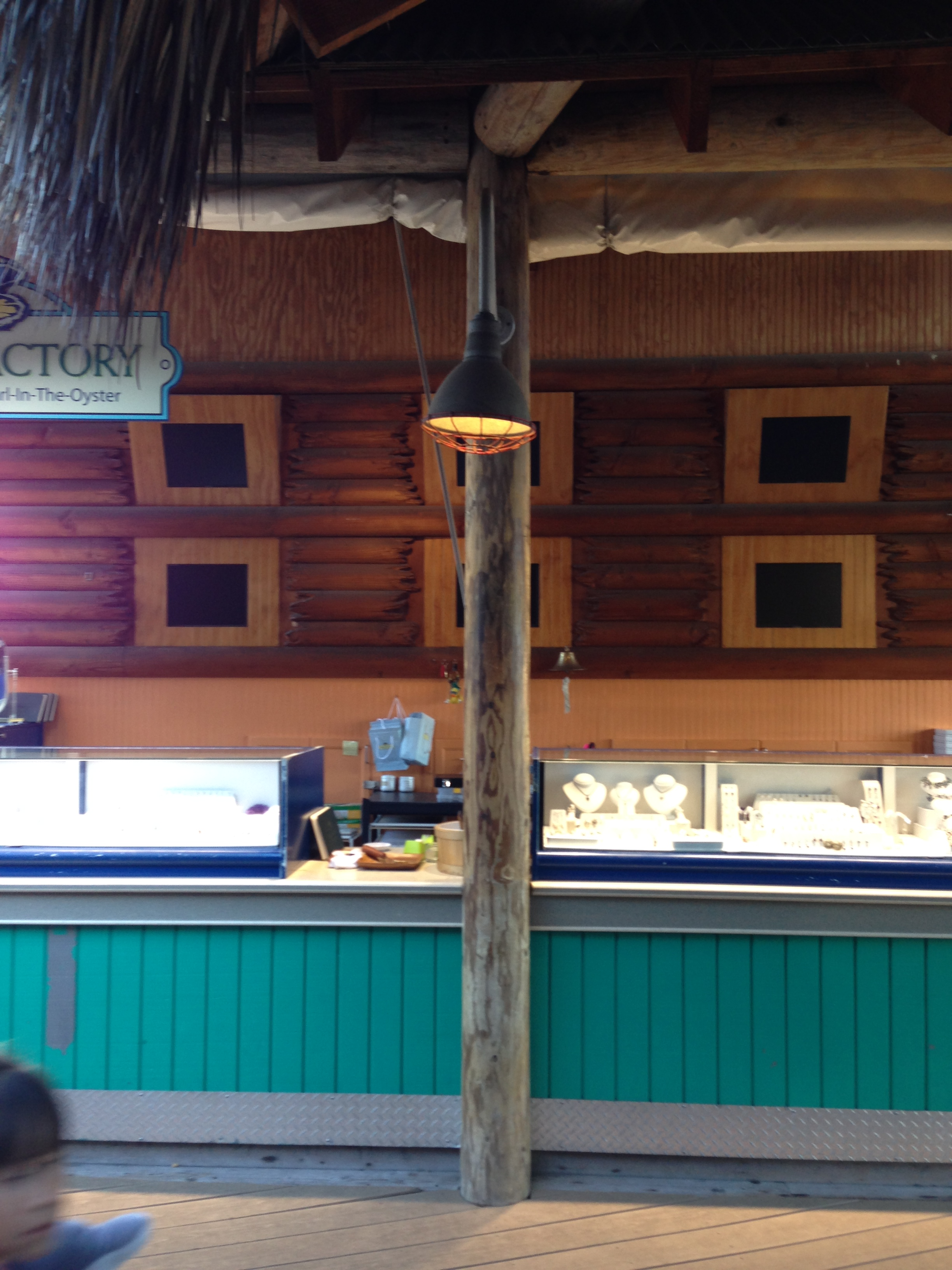 This is a photo, taken by Baseballpilot08, of the former on-ride photo kiosk for the Shipwreck Rapids ride in SeaWorld San Diego. It has since been converted into a pearl art shop, but the old monitors are still visible. At the ride while it was closed.